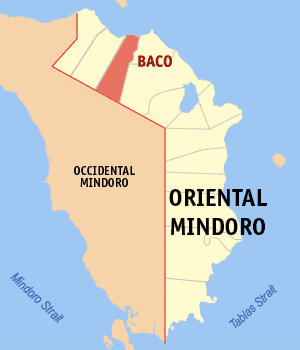 Map of Oriental Mindoro showing the location of Baco